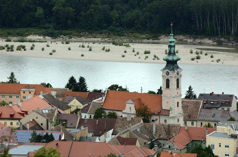 Hainburg an der Donau, Lower Austria